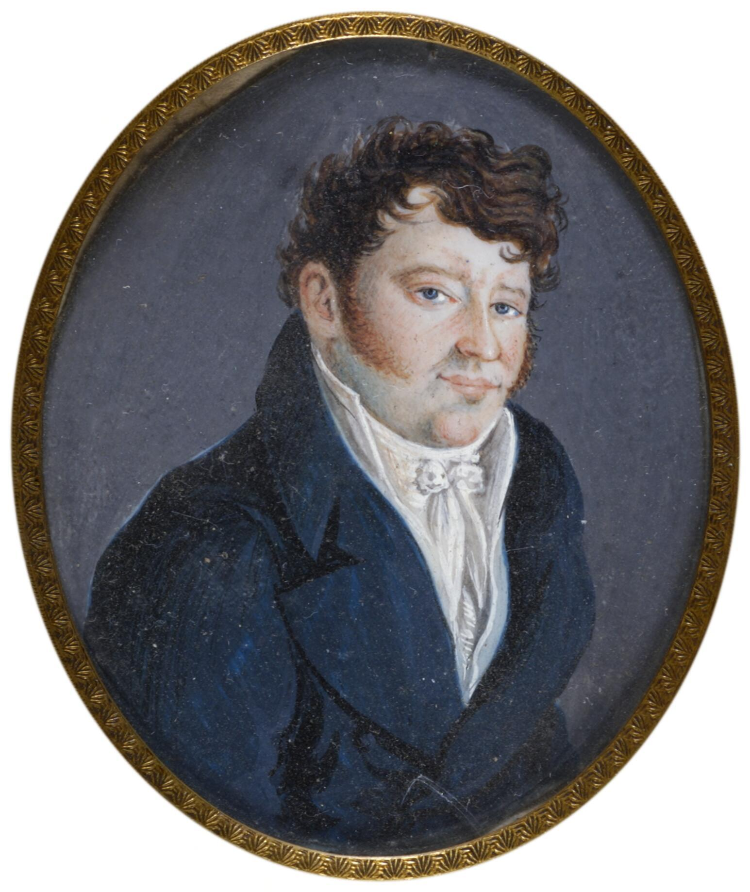 Jan Hendrik van Boelens